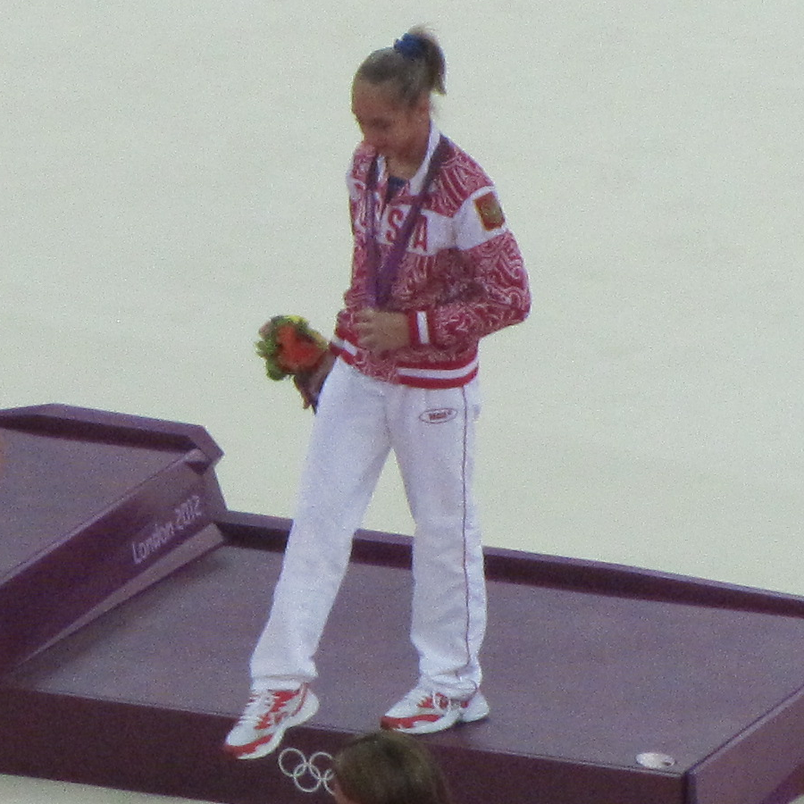 Gold: Gabrielle Douglas (USA); Silver: Viktoria Komova (Russia); Bronze: Aliya Mustafina (Russia). [Image cropped from original at Flickr]